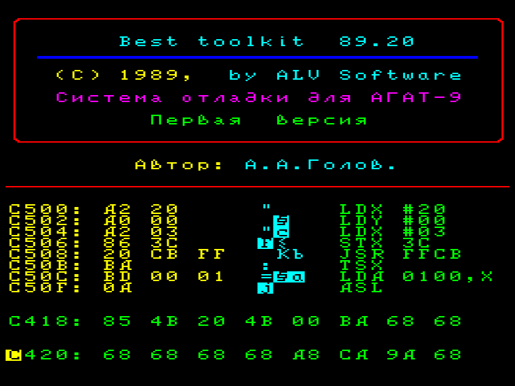 Agat-9 computer. «Best Tool Kit» programm